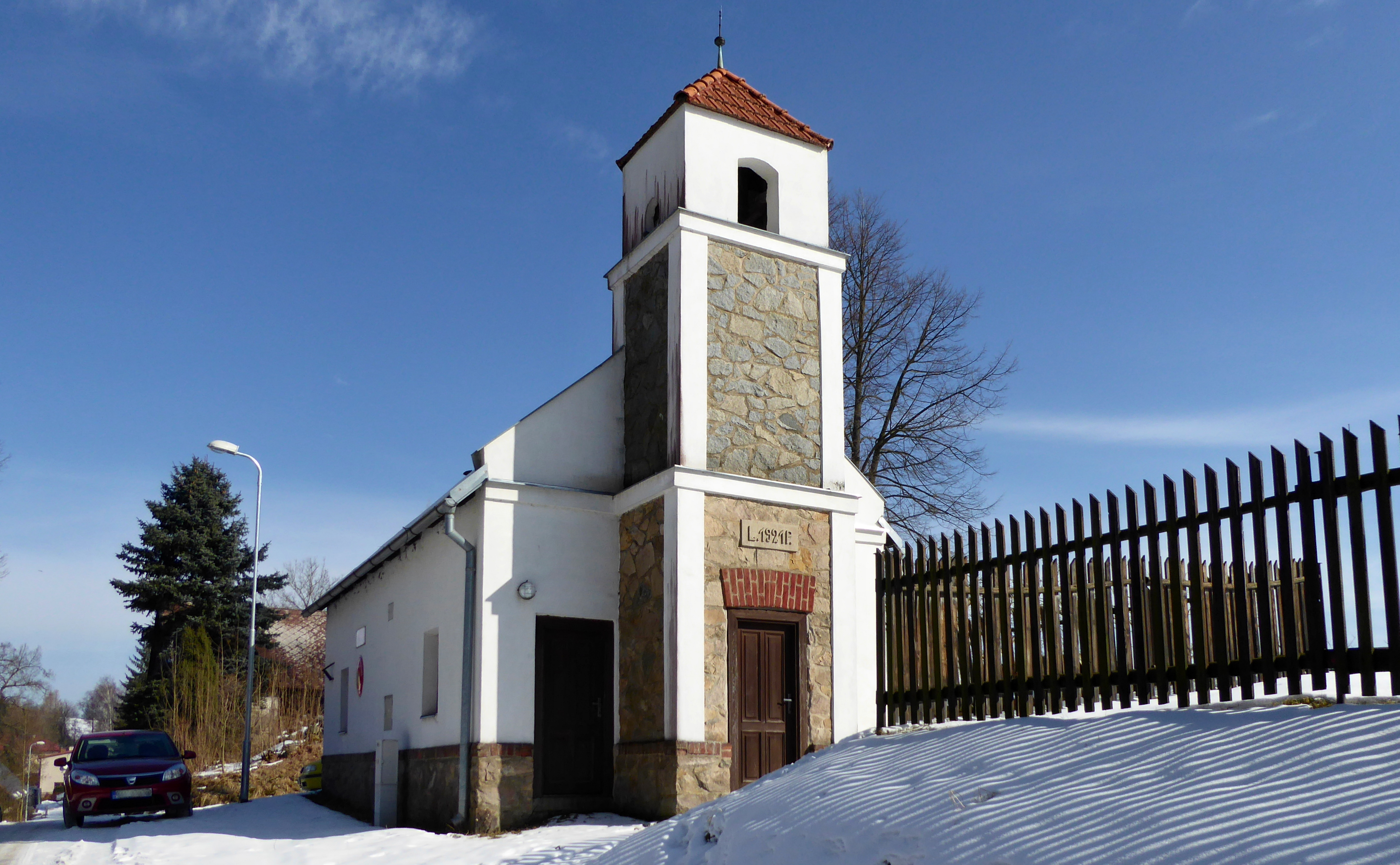 The fire station built in 1921 (year on the wall, see photo) in the hamlet of "Možděnice", part of village "Vysočina". The Volunteer Fire Corps was in the settlement of "Možděnice" founded in 1906. After the demolition of the wooden bell tower in 1922, the bell was hung in the tower of the fire station. Photo location: Czechia, Pardubice Region, municipality Vysočina, the hamlet of "Možděnice", "Stružinecká" knoll hill.